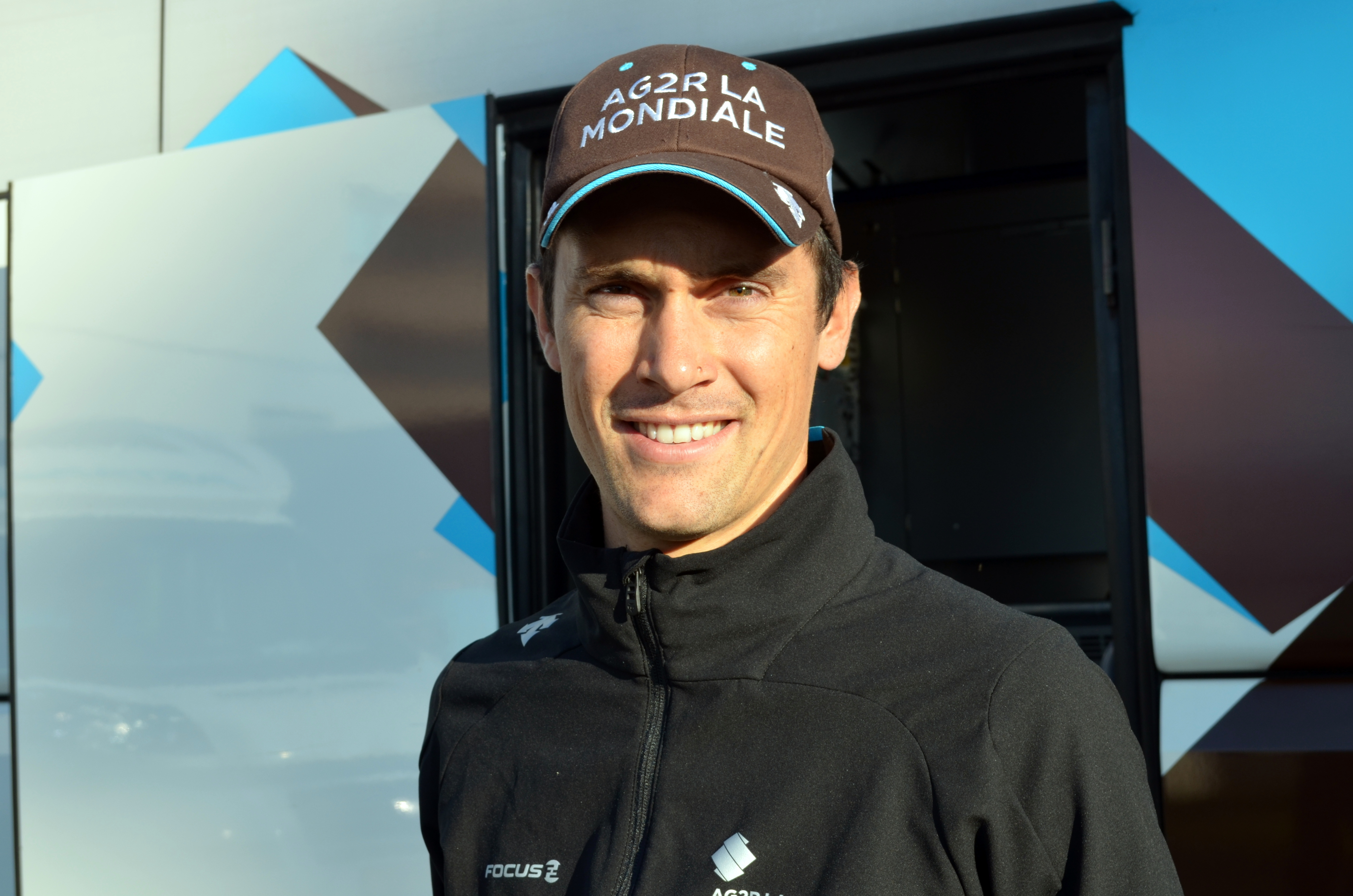 Tour de l'Ain 2014 - Stage 1, evening at hotel. Personality rights warningAlthough this work is freely licensed or in the public domain, the person(s) shown may have rights that legally restrict certain re-uses unless those depicted consent to such uses. In these cases, a model release or other evidence of consent could protect you from infringement claims.